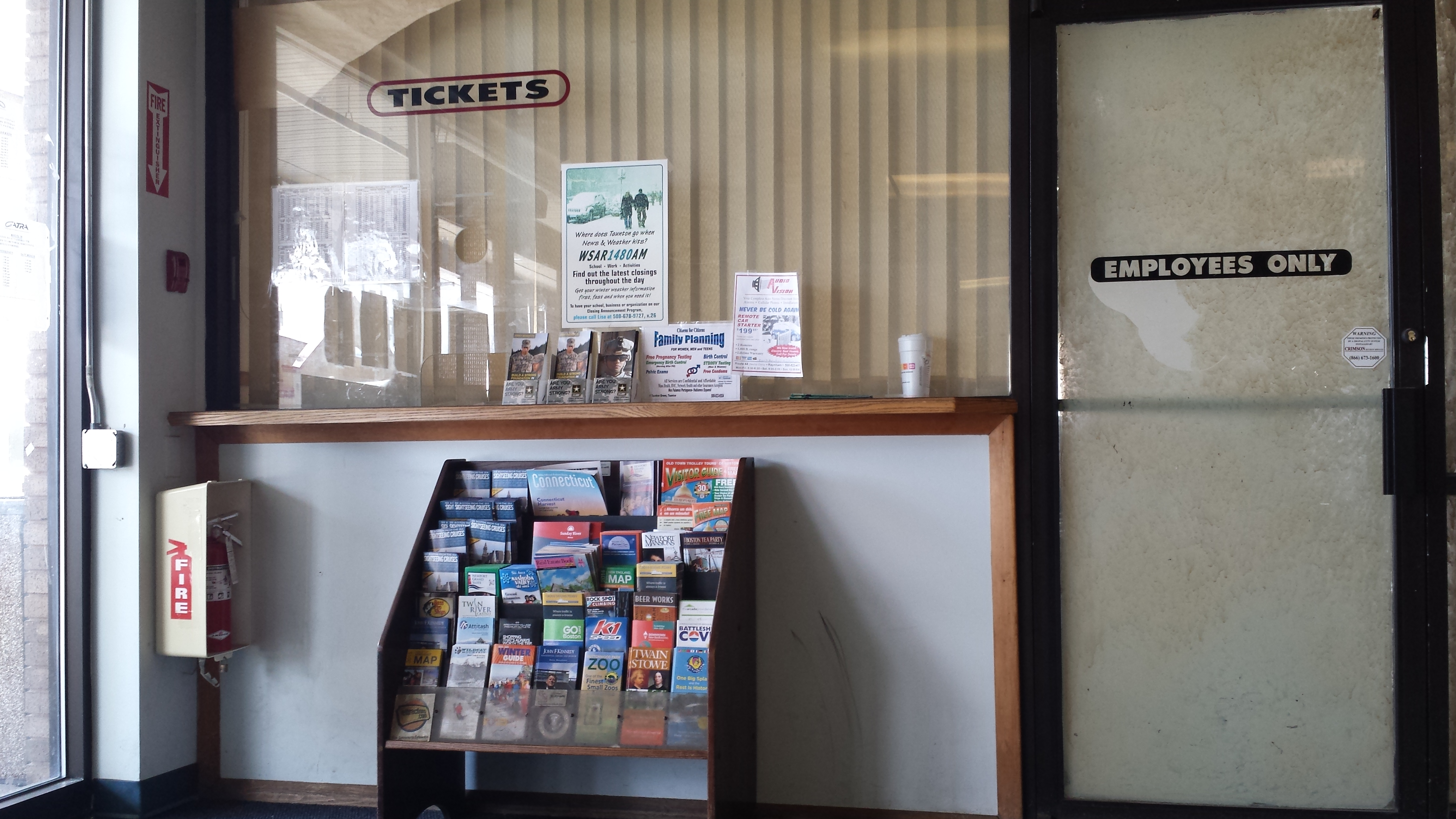 Cape Codder ticket counter at Bloom Bus Terminal in April 2015, shortly before it was removed during a renovation